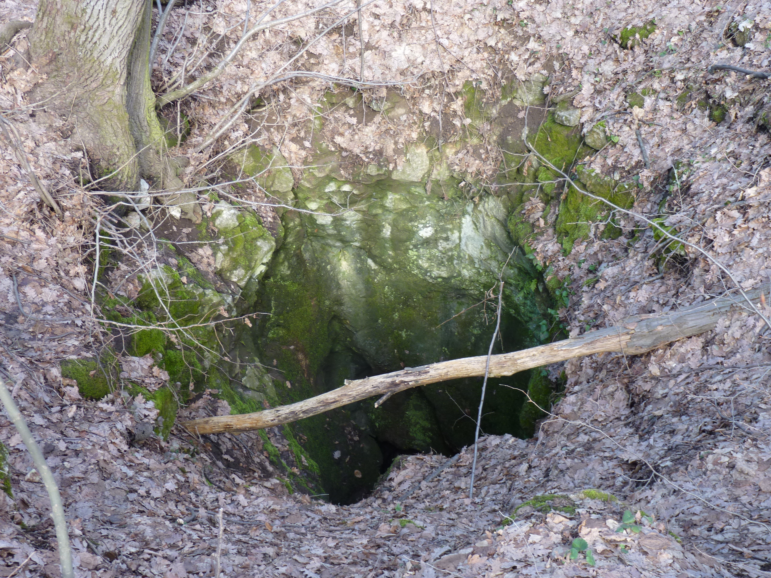 Kevély-nyergi-zsomboly or Természetbarát zsomboly (Kevély-nyergi Cave)